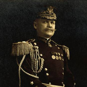 Brig. General Ernest Albert Garlington, winner of the Medal of Honor during the Indian Wars in 1890, in 1911. Cropped version downloaded from the source listed.